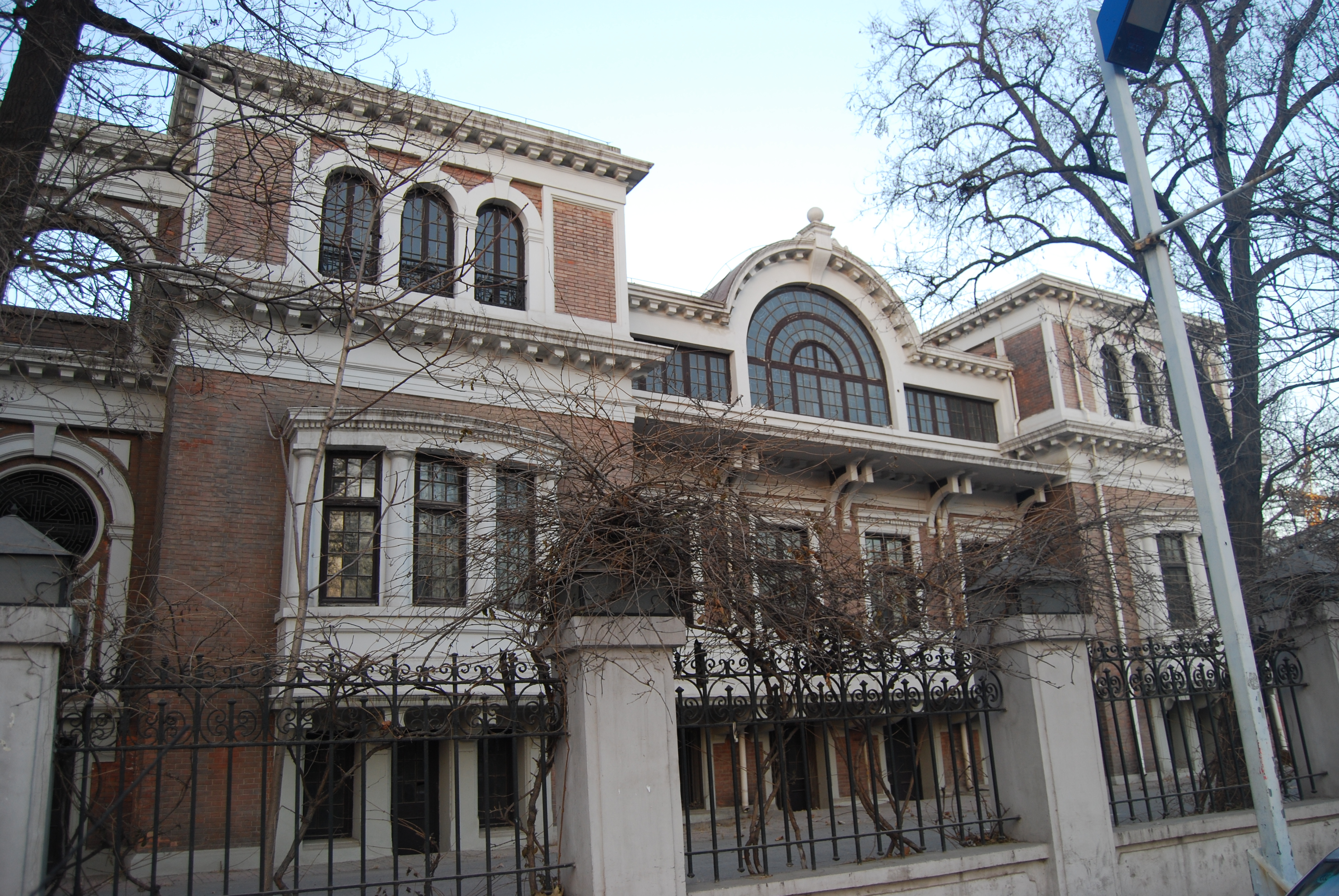 The Former Residence of Li JiFu in Huayuan Lu No. 12, Heping District, Tianjin